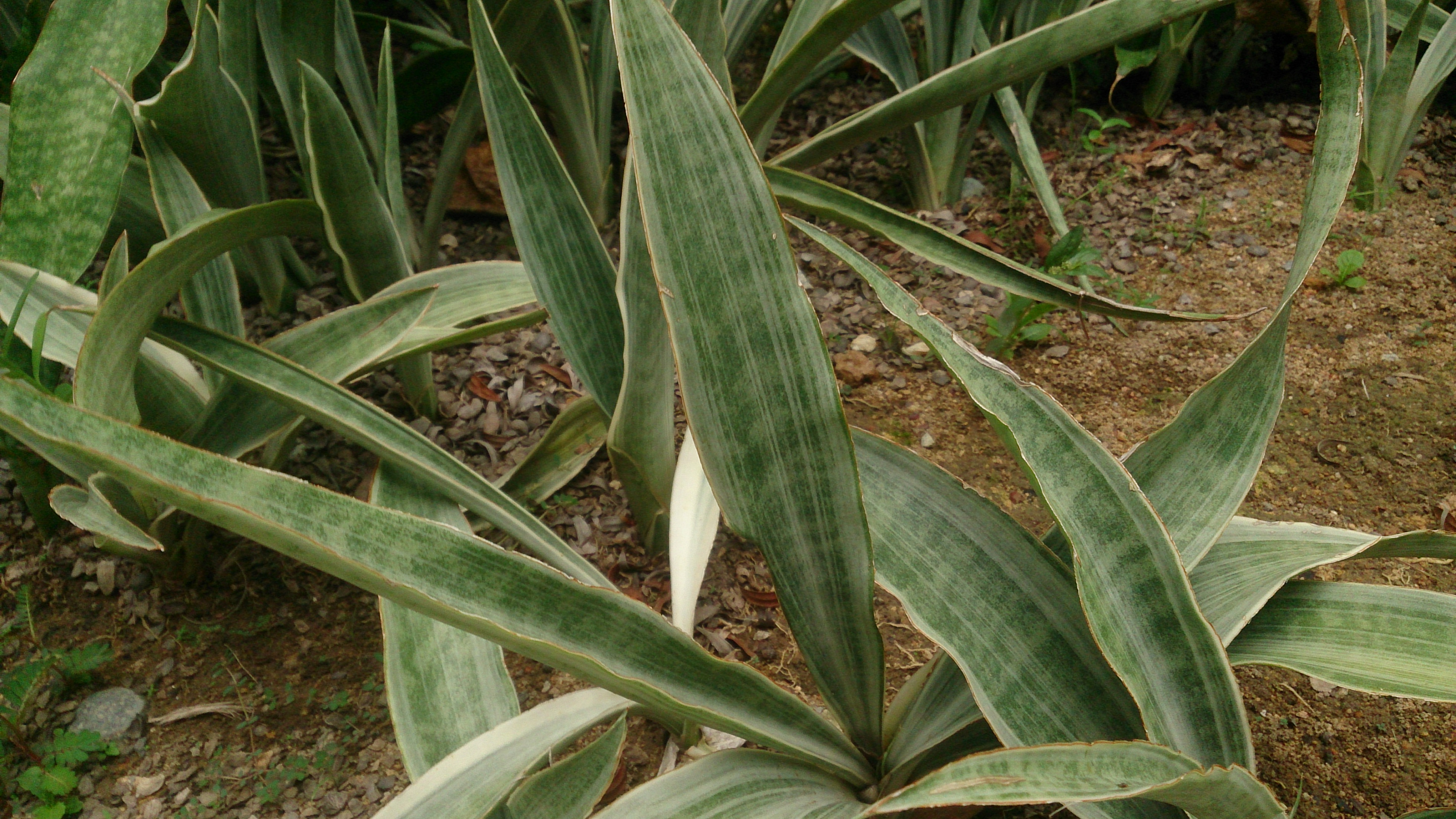 Sansevieria metallica